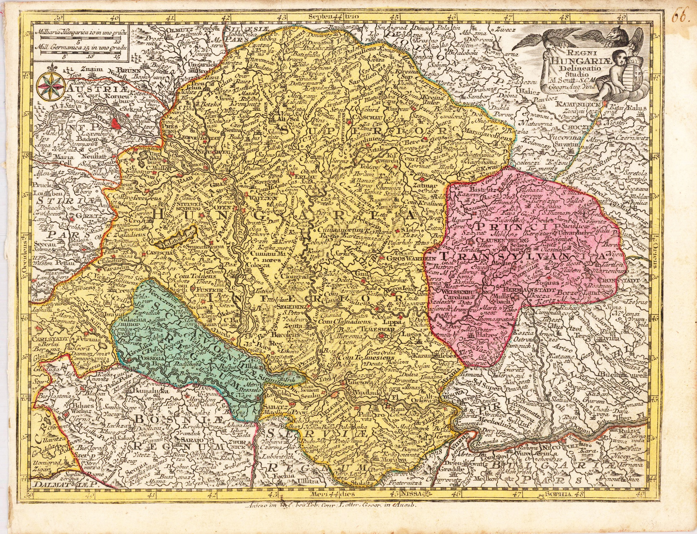 Regni Hungariae Delineatio Studio M. Seutt. S.C.M. Geogr. Aug. Vind Published by G. C. Lotter 1656-60, Augsburg, 1656